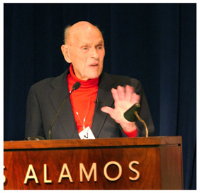 Downloaded from on 12/7/2005.